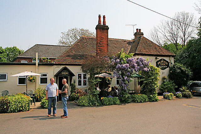 The Plough Inn, Sparsholt, Hampshire, seen from its car park